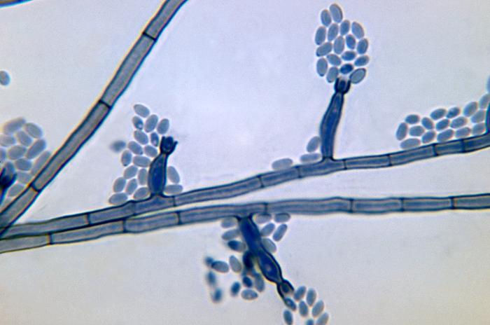 ID#: 4238 Description: This photomicrograph depicts conidia-laden conidiophores of a Phialophora verrucosa fungal organism from a slide culture. Note the flask-shaped phialides, each lipped by a collarette. Each phialide terminates in a bundle of round, to ovoid conidia. Phialophora spp. are known to be a cause of both chromoblastomycosis, and phaeohyphomycosis. Content Providers(s): CDC/Dr. Libero Ajello Creation Date: 1972 Copyright Restrictions: None - This image is in the public domain and thus free of any copyright restrictions. As a matter of courtesy we request that the content provider be credited and notified in any public or private usage of this image.